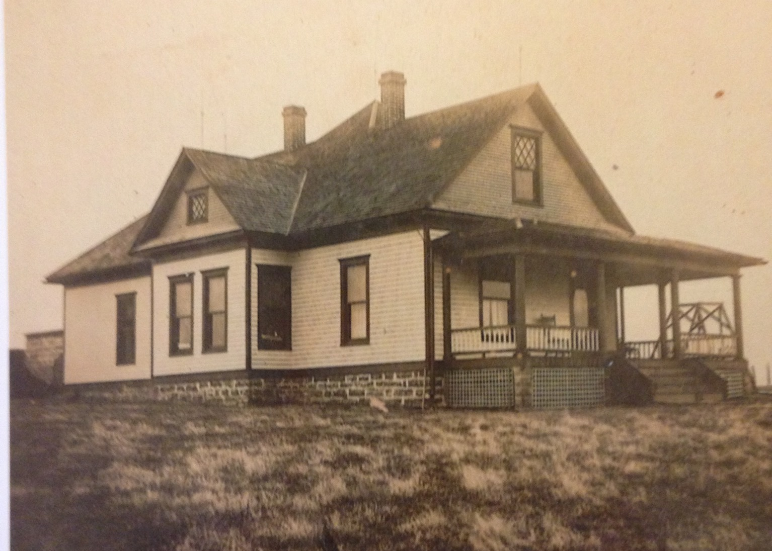 Missouri home built in 1904. Features large front porch with ornate front door. Inside has much wood work; features a built-in china cabinet with pass through and large wooden pocket doors.